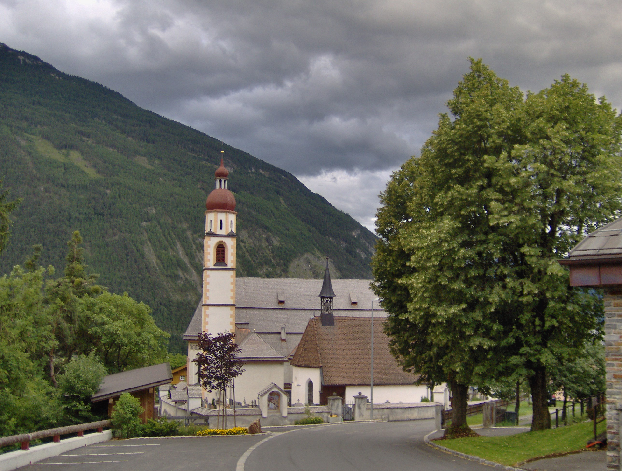 The parish church Saint Ulrich in Tarrenz, Tyrol, Austria